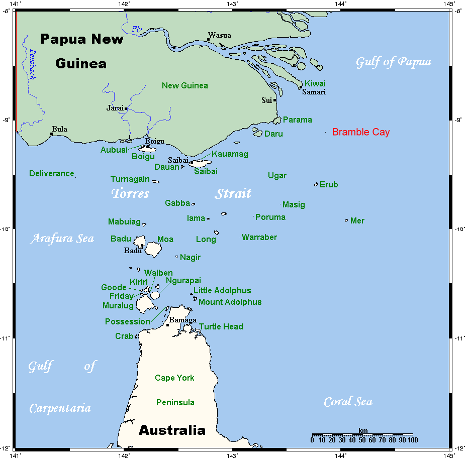 A map of the Torres Strait Islands. I have endeavoured to use native names wherever I could find them. If you can suggest ways in which this map could be made more up to date, don't hesitate to leave me a message to that effect. This map's source is here, with the uploader's modifications, and the GMT homepage says that the tools are released under the GNU General Public License.